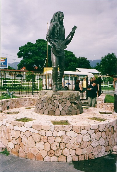 Memorial of Bob Marley in Kingston, 2002